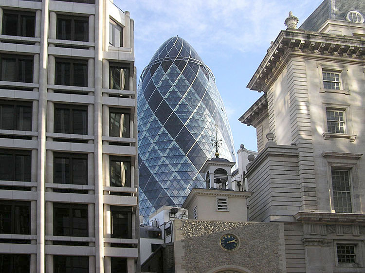 The Swiss Re tower in London, England. Taken by Adrian Pingstone in November 2004 and released to the public domain.